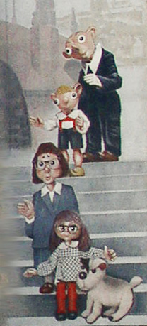 Crop of the fasade of the Spejbl and Hurvínek Theathre building in Prague.